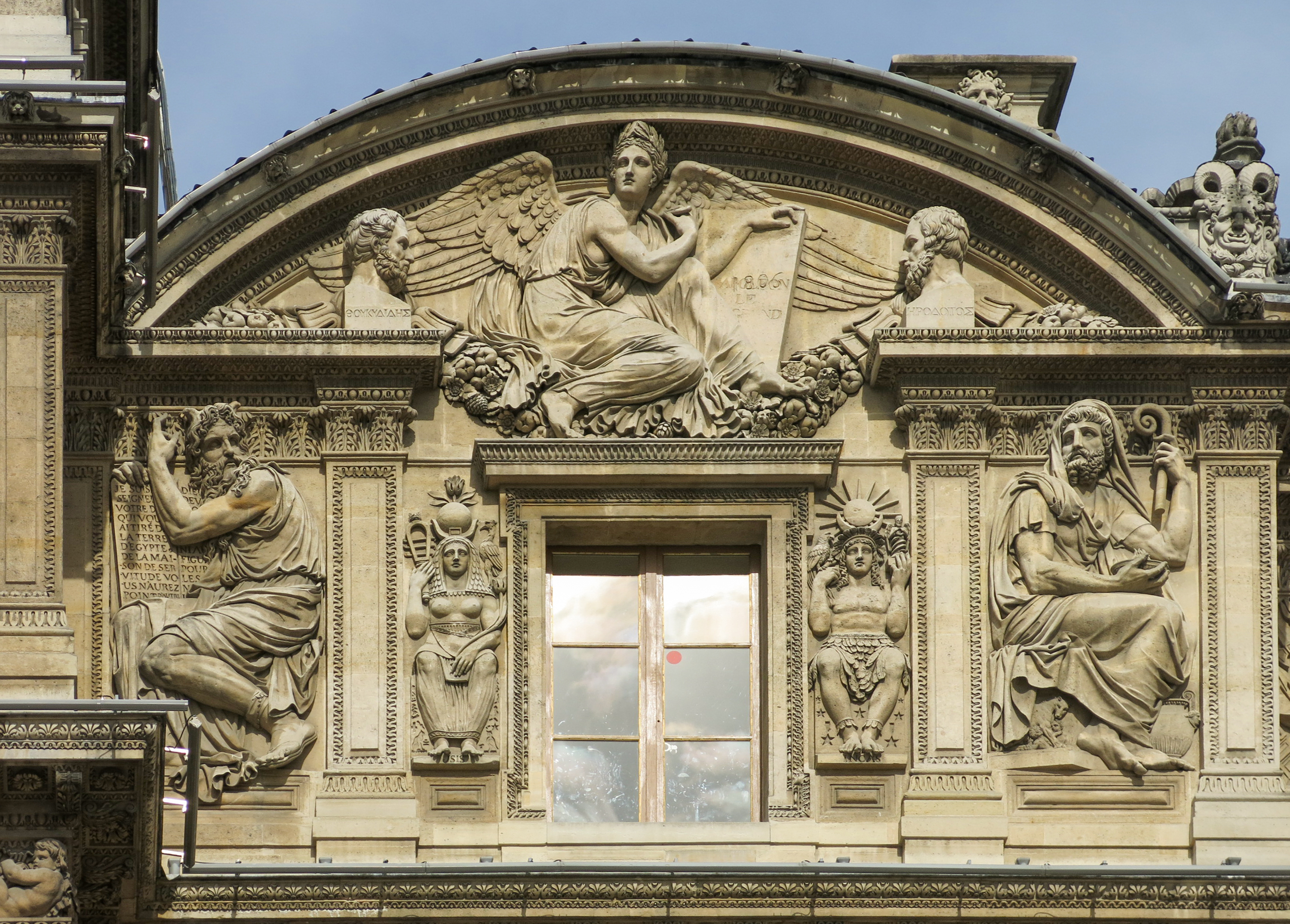 Reliefs in the cour carrée du Louvre on the right of the pavilon de l'Horloge at the top (Paris, France). At the top, the Law. On the left, Moses and Isis. On the right, Manco Capac and Numa Pompilius.